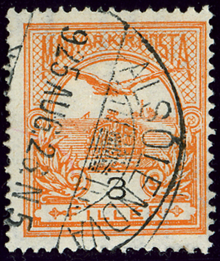 Kingdom of Hungary 3 fillér orange (SG174) issue 1913, cancelled lately at ALSOLENDVA in 1925, Slovenia. Michel N°111.